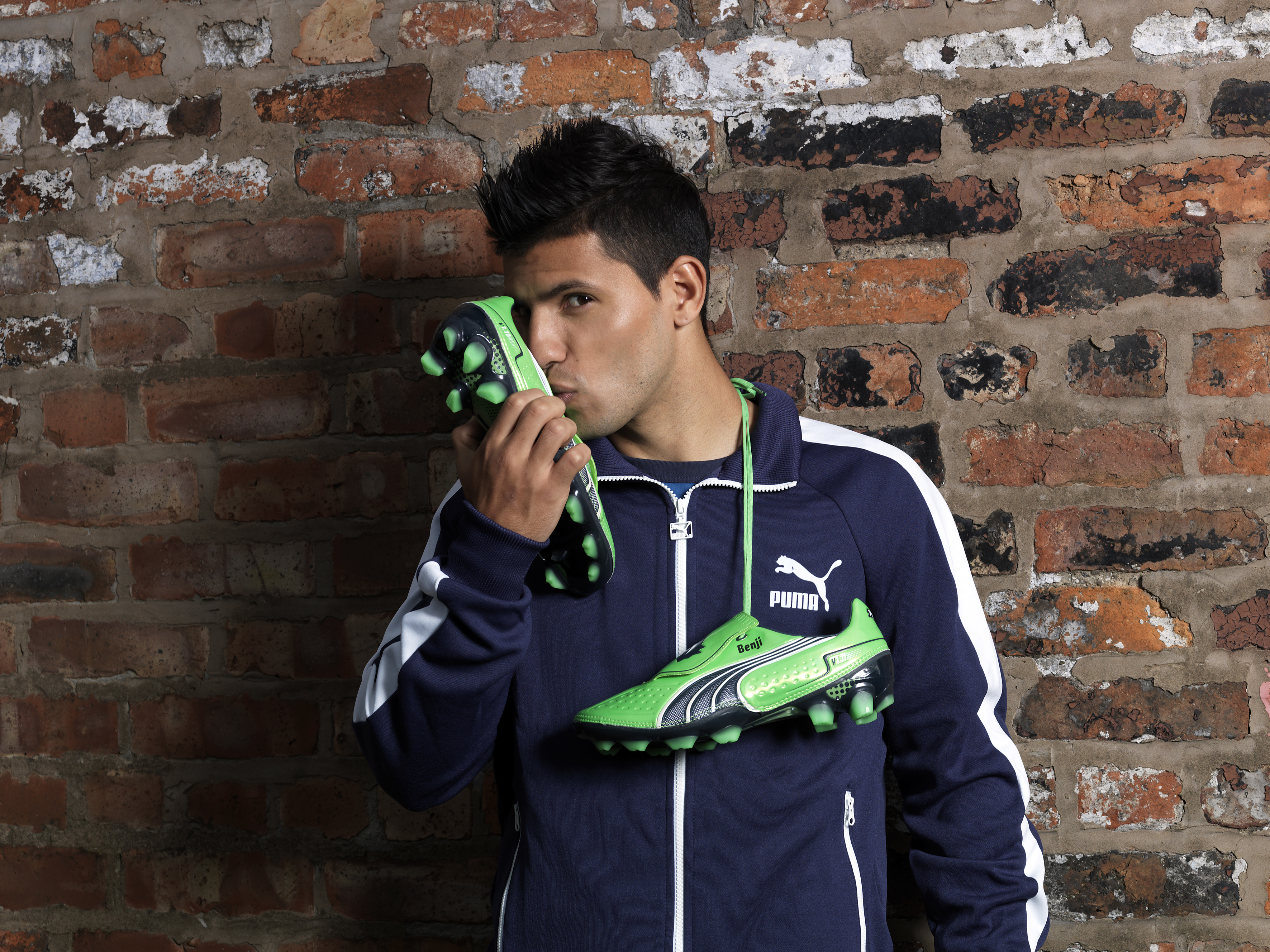 Argentine footballer Sergio "Kun" Agüero.